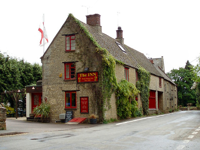 The Inn, Greatworth The imaginatively titled "The Inn". Established in 1849.